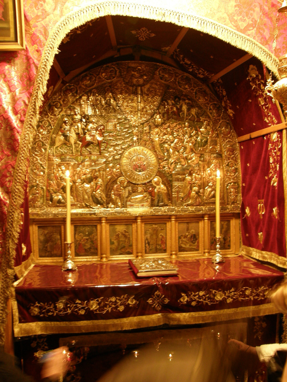 Grotto of the Nativity. Orthodox Altar. Bethlehem.